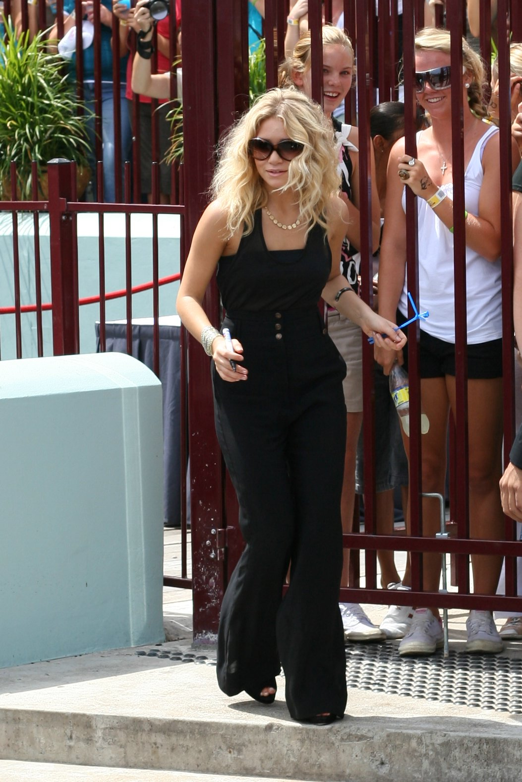 Ashley Olsen